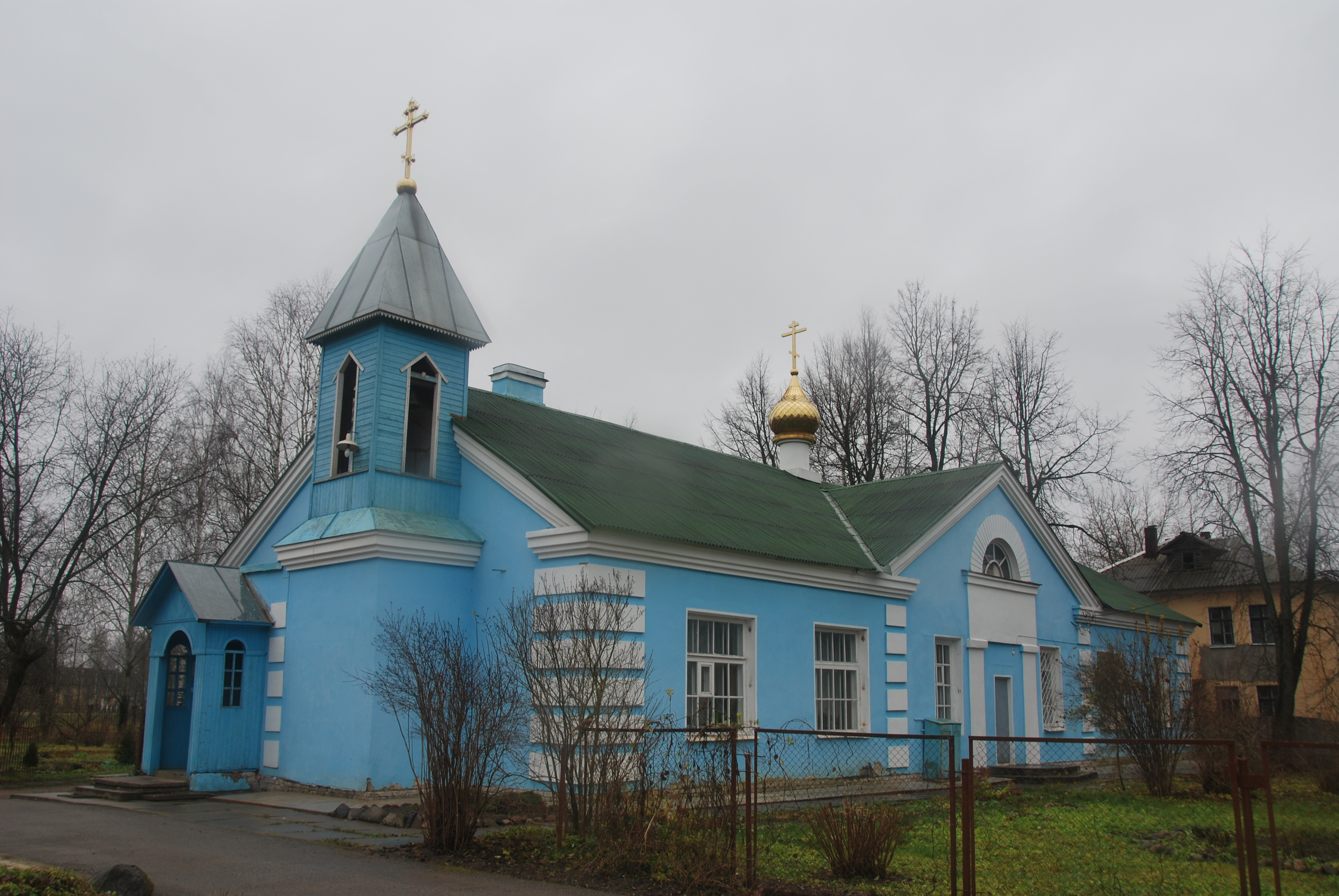 Church in Naziya